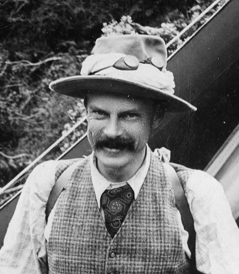 George Edward Mannering in the Tasman Valley preparing for climb of Mt Sefton or Mt Tasman.